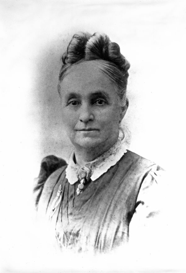 Chloe Merrick Reed, an educator and First Lady of Florida.